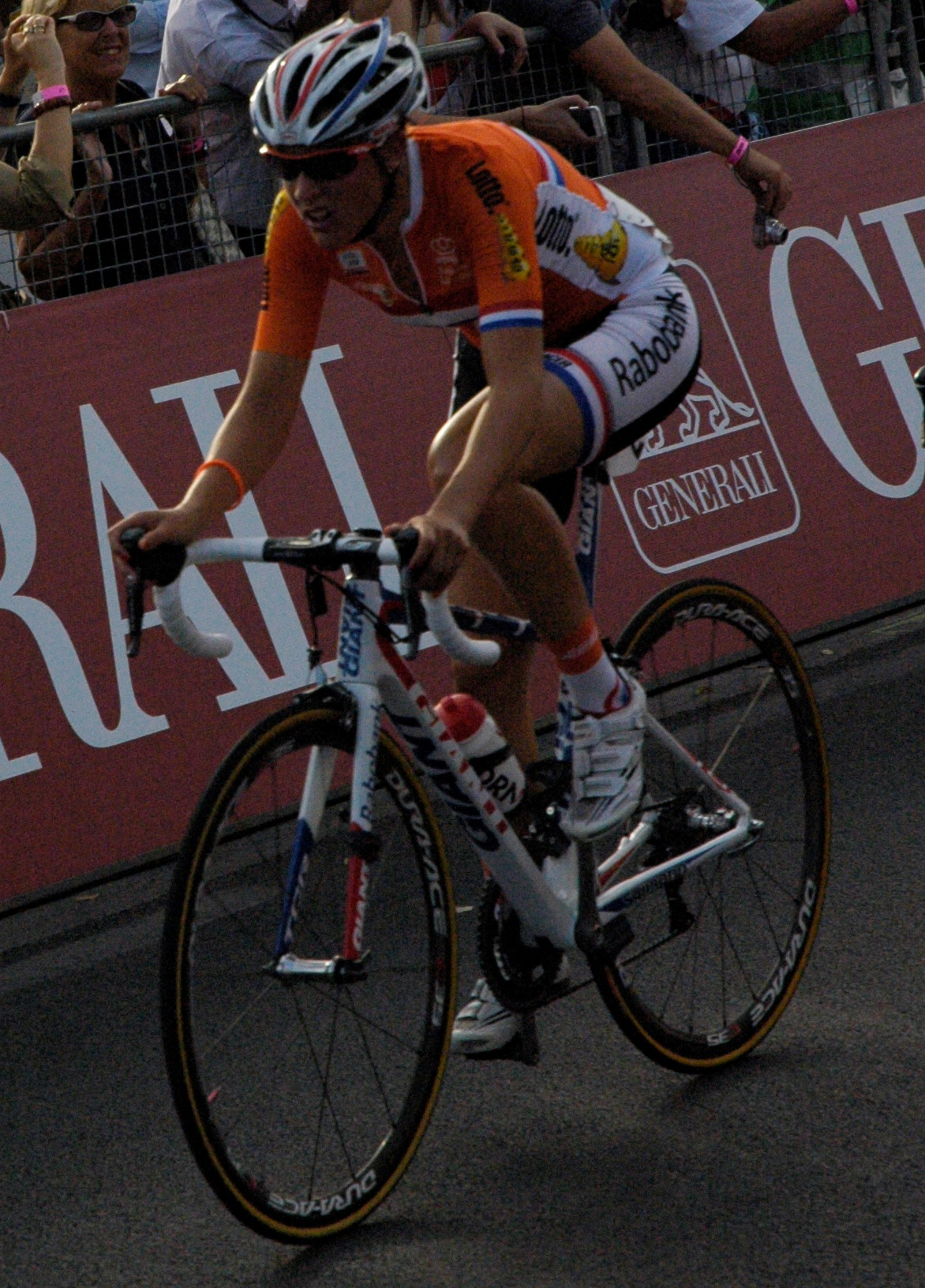 2013 UCI Road World Championships – Women's road race